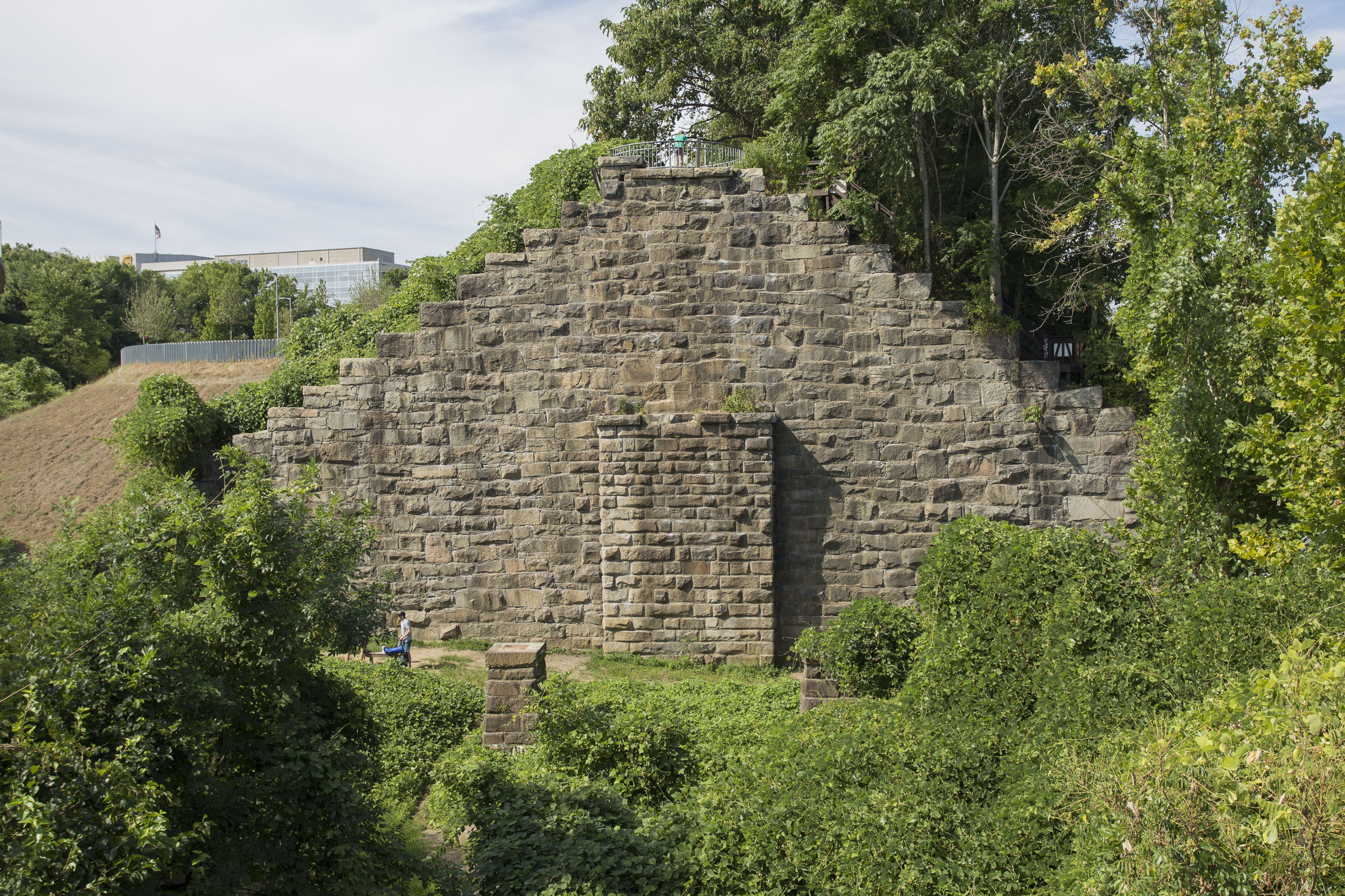 Main wall of the Manchester climbing area, photographed July 2017 by Nicholas Seitz from top of Pillar 1